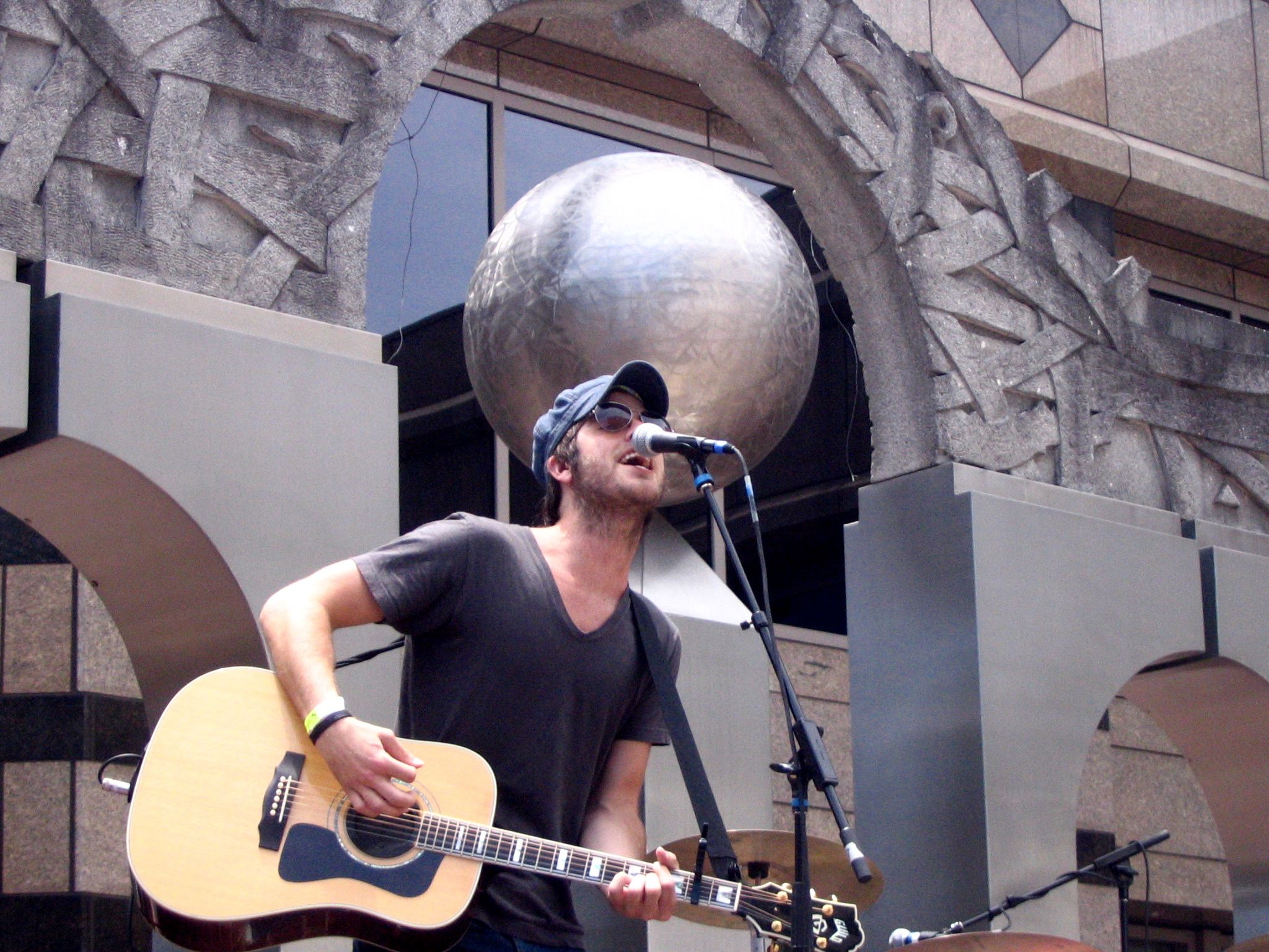 Graham Colton performing live on June 17, 2005 outside Regions-Harbert Plaza for City Stages in Birmingham, Alabama.